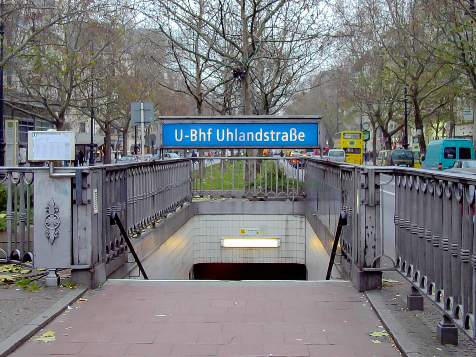 Berlin subway station Uhlandstraße, western exit